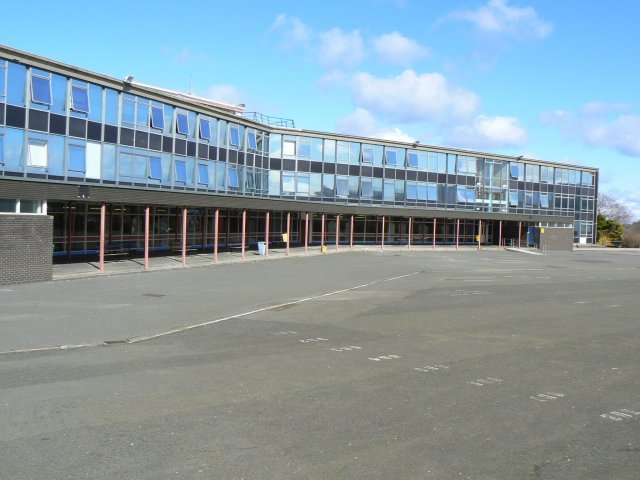 Madras College The architectural style of this section of Madras College, opened in 1967 and which houses about 1,000 S1, S2 and S3 pupils, contrasts strongly with that of the old buildings in South Street, where pupils in S4, S5 and S6 classes study.